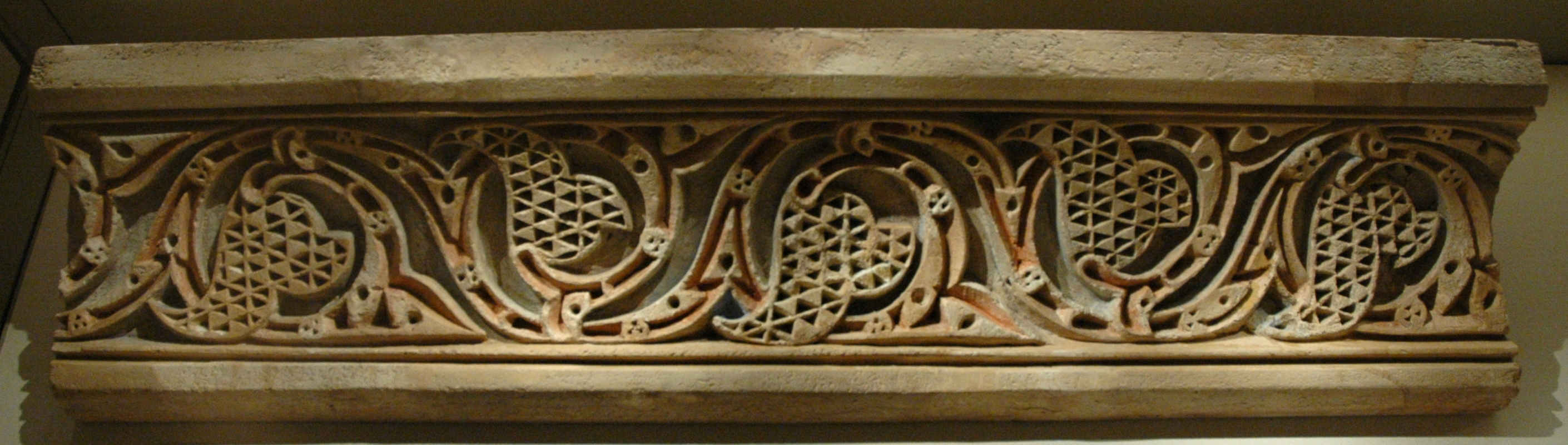 Cornice with finials decoration. Carved and painted plaster, 10th century (?), Nishapur. Metropolitan Museum of Art (MET 40.170.267).